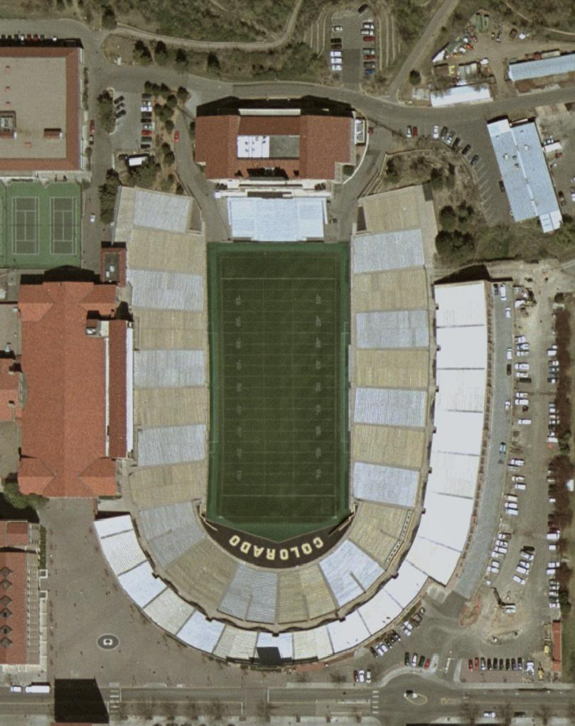 Folsom Field at the University of Colorado at Boulder in Boulder, CO